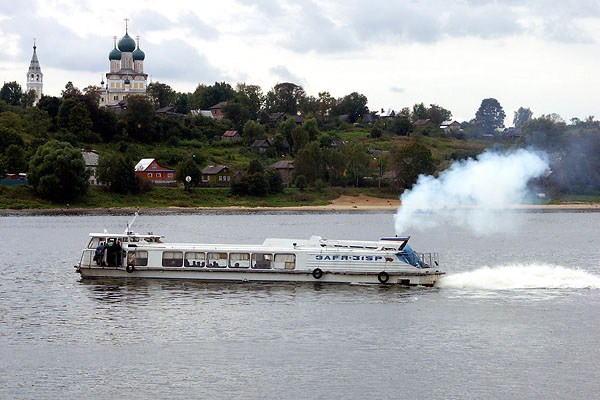 "ZARYA-315R" on Volga river in Tutaev (2005). Project R-83A